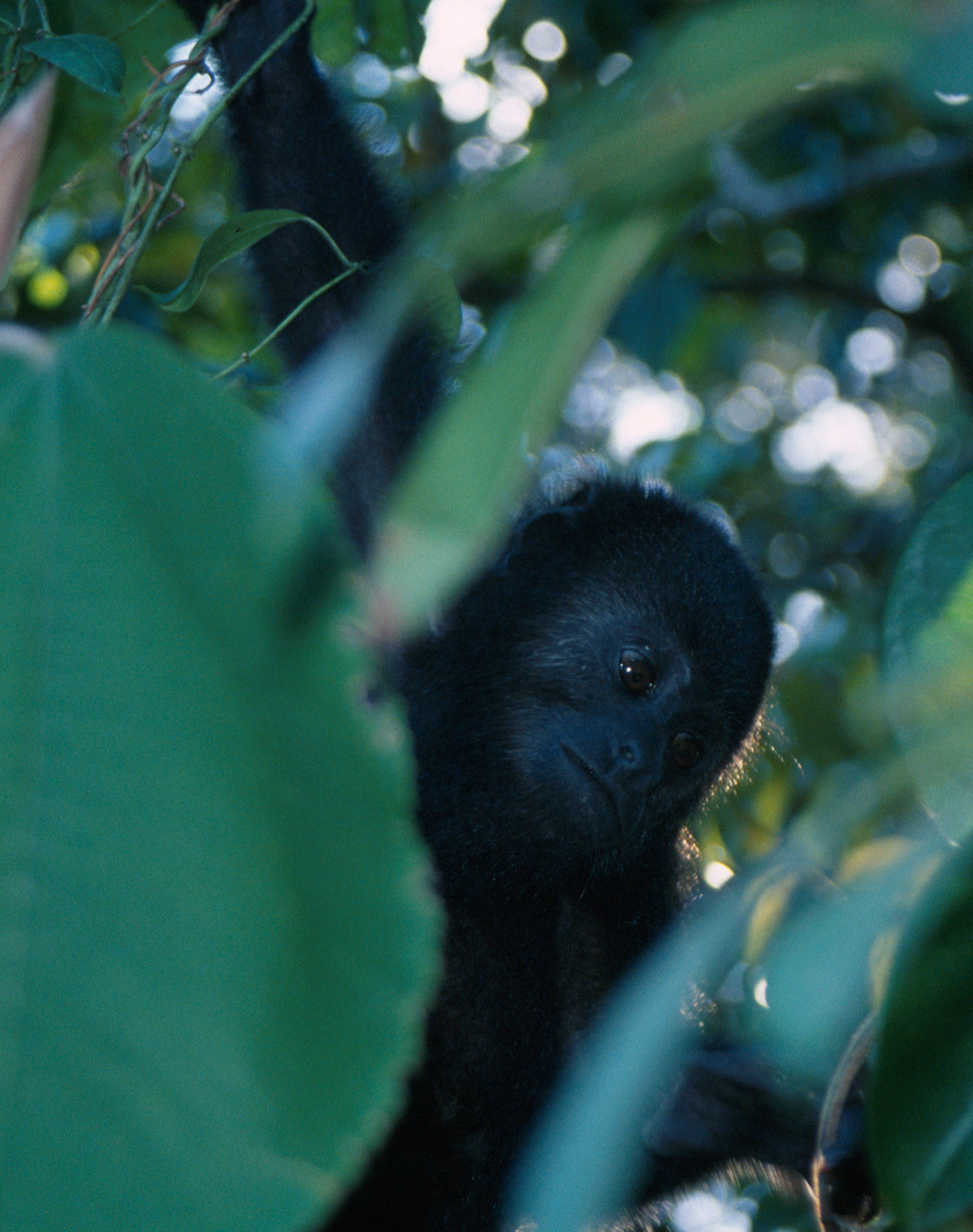 Alouatta pigra. Photo taken in Belize. Note that the source page calls this a "Mexican black howler monkey" but A. pigra is the Guatemalan Black Howler. The Mexican Howler Monkey is A. palliata mexicana.